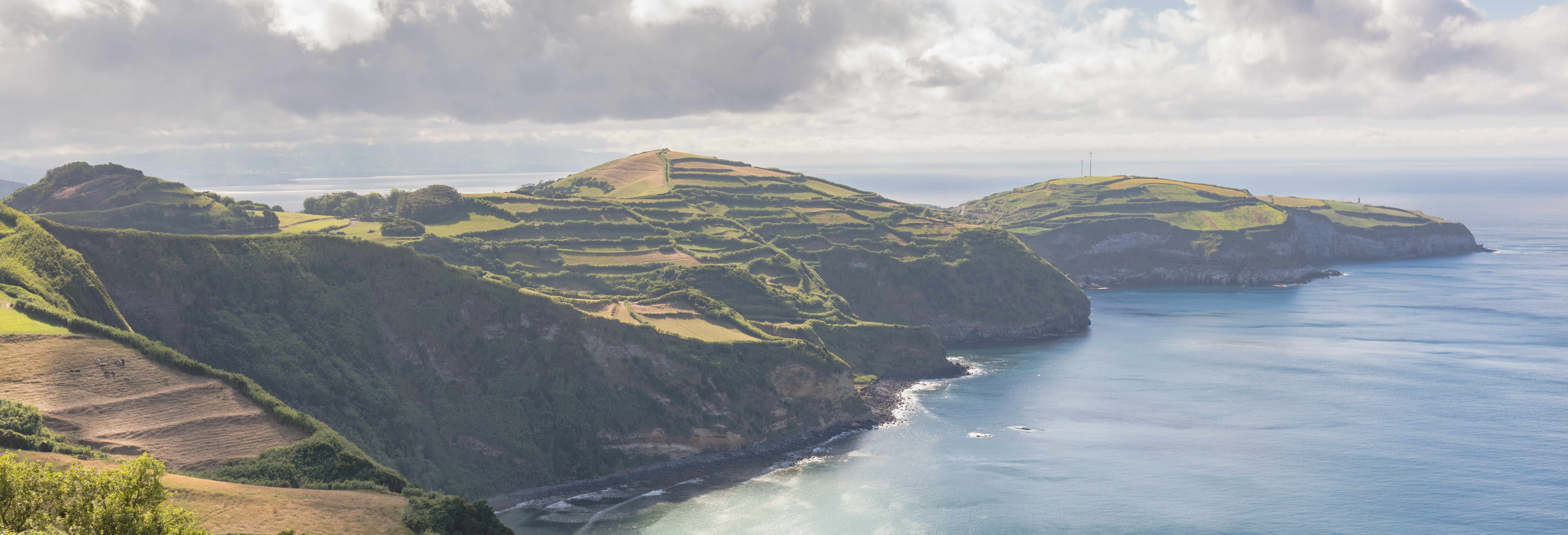 View from Santa Iria outlook, São Miguel Island, Azores, Portugal